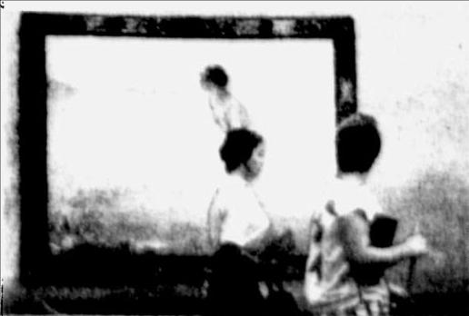 Paul Émile Chabas's on display at the Toledo Museum of Art in 1958